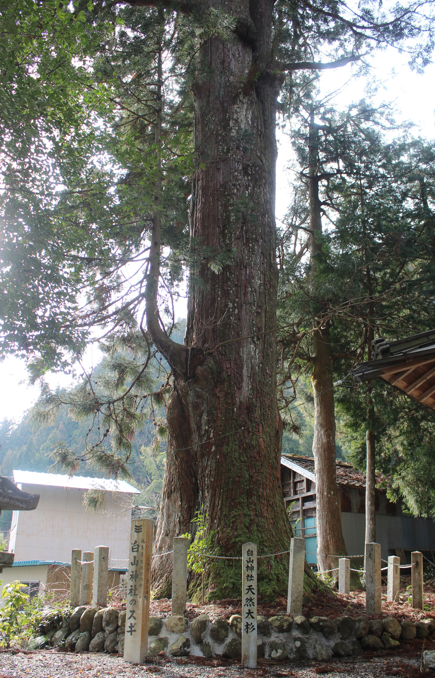 Cryptomeria japonica in Hakusan-jinja Odu, Ibigawa, Gifu, Japan.